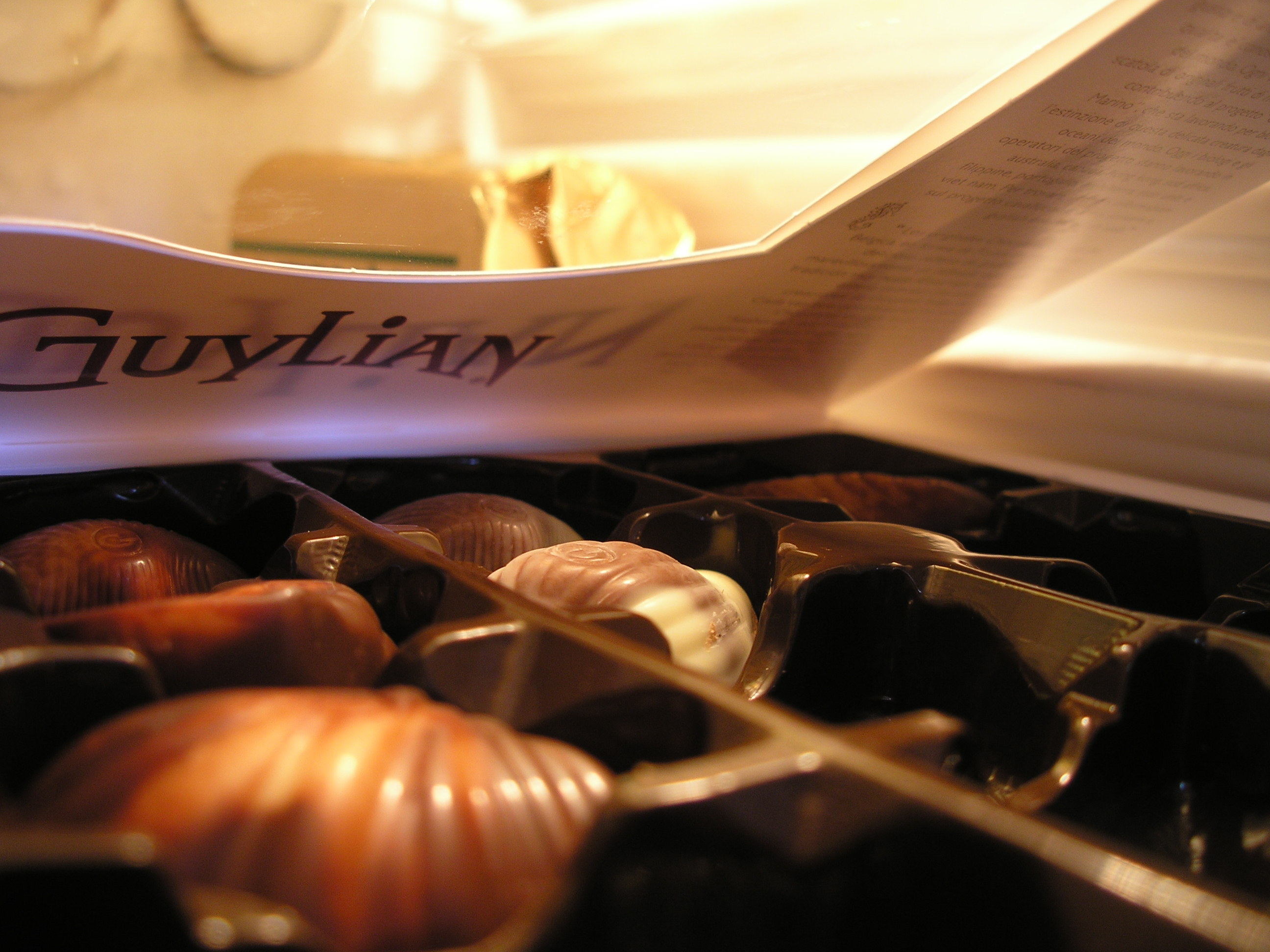 Guylian Chocolates 2007, Paul Wright